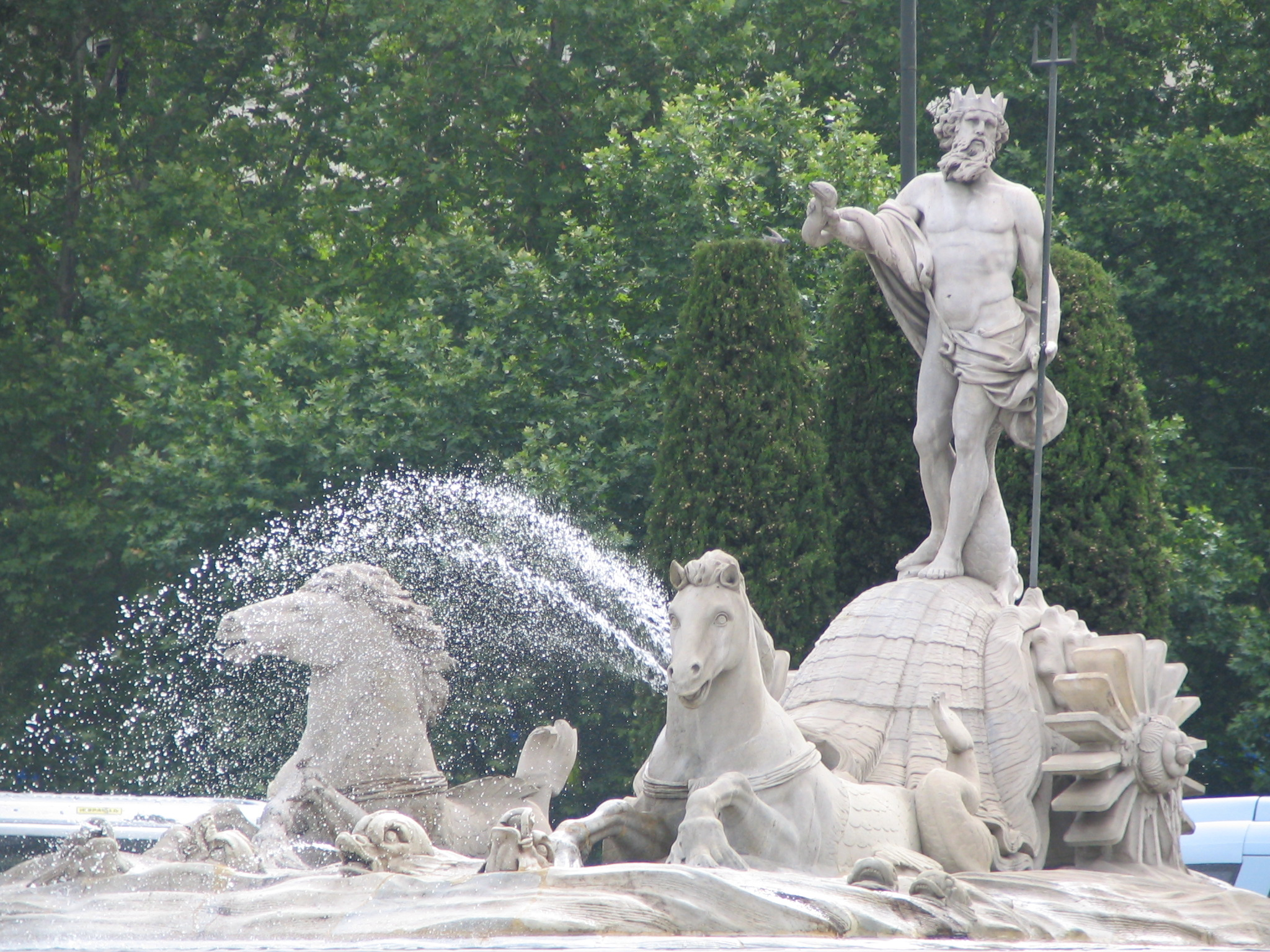 Fountain of Neptune at the Plaza de Cánovas del Castillo (square) in Madrid (Spain). Designed by Ventura Rodríguez and sculpted in white marble by Juan Pascual de Mena from 1780 to 1784.